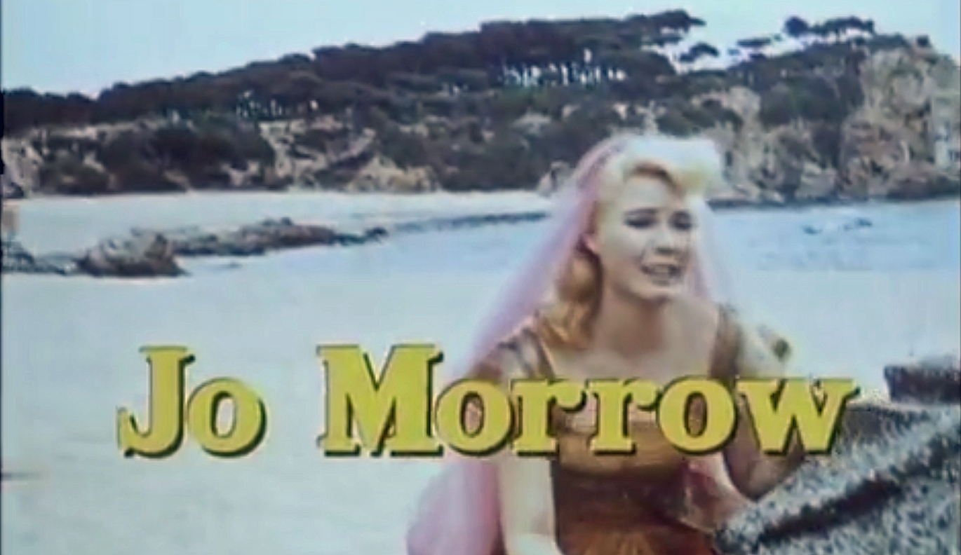 Jo Morrow in trailer to "The Three Worlds of Gulliver" (1960)